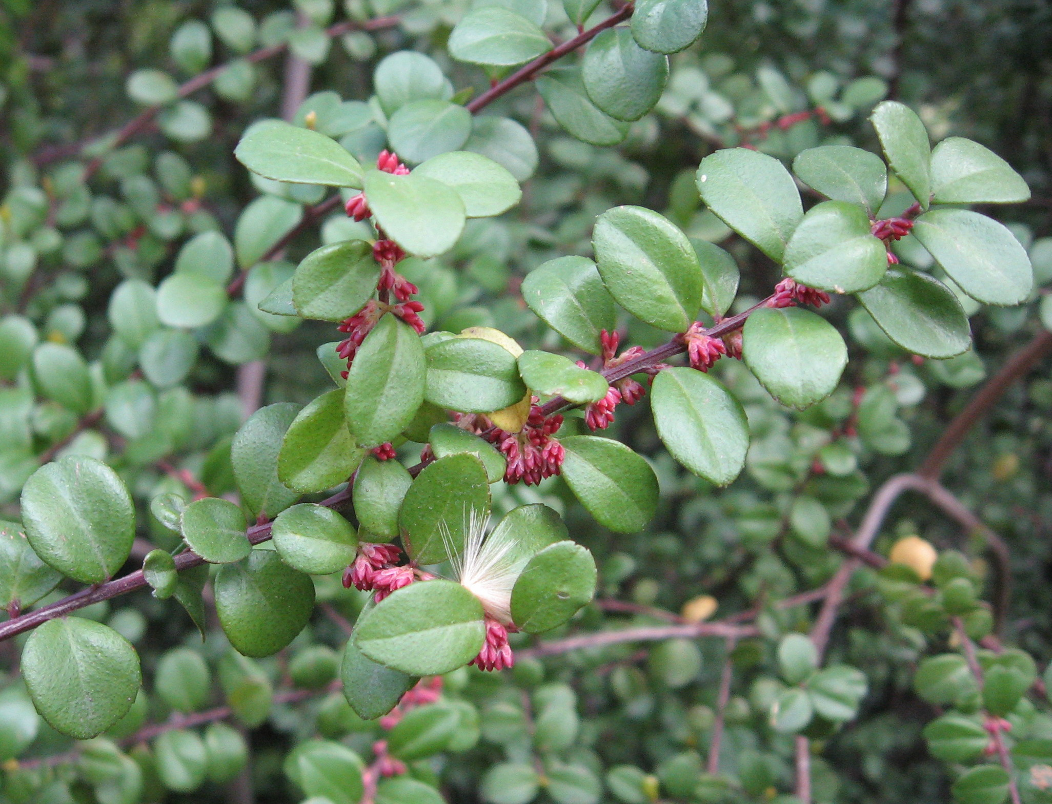 The Cape myrtle in the Royal Botanical Garden of Madrid